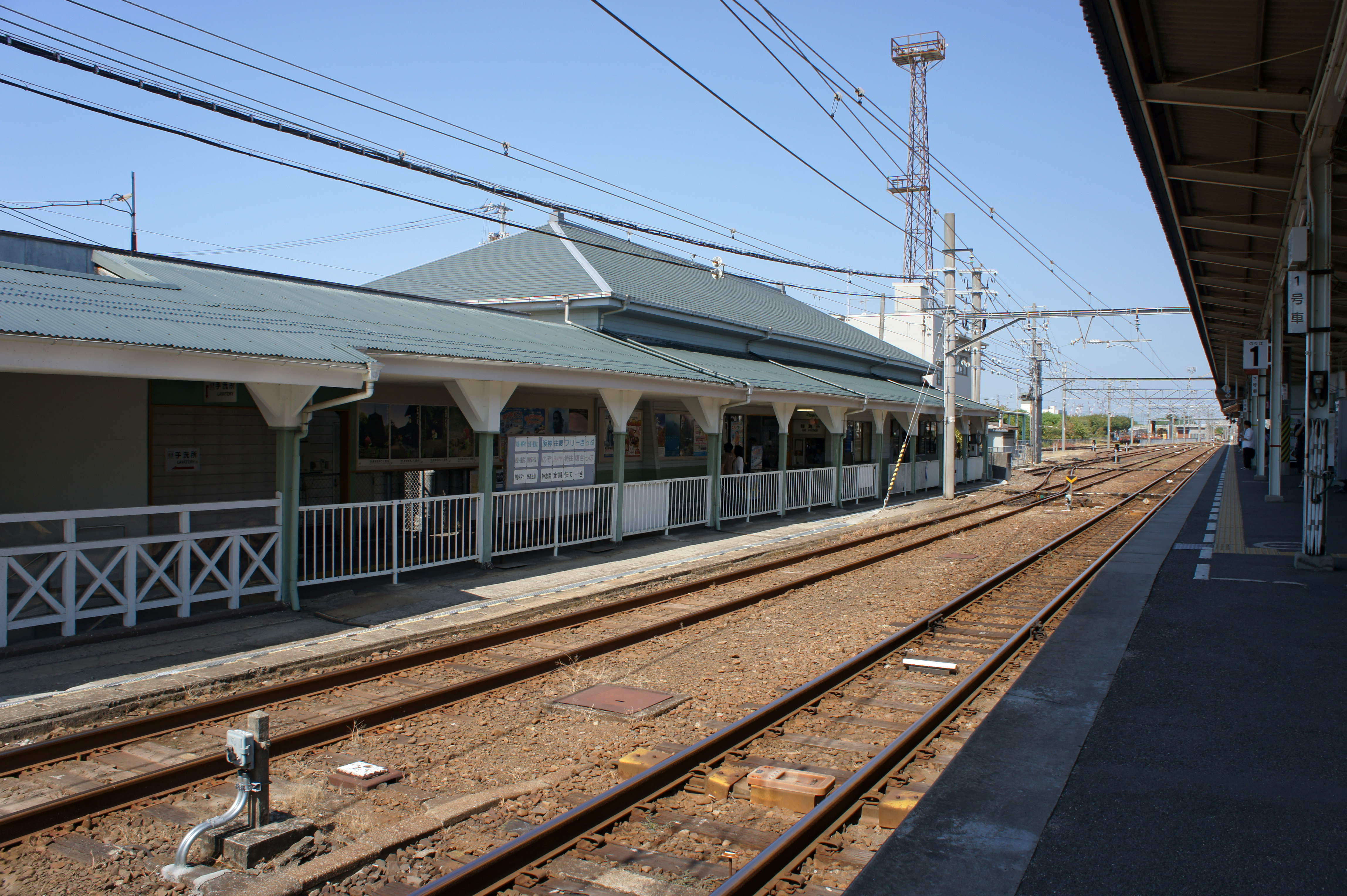 Tadotsu Station in Tadotsu, Kagawa prefecture, Japan